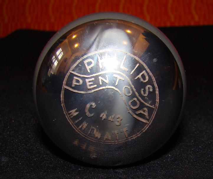 Power pentode C443 (top view).